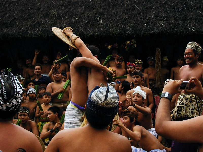 Pandan War, in Tenganan village, Karang Asem, Bali.